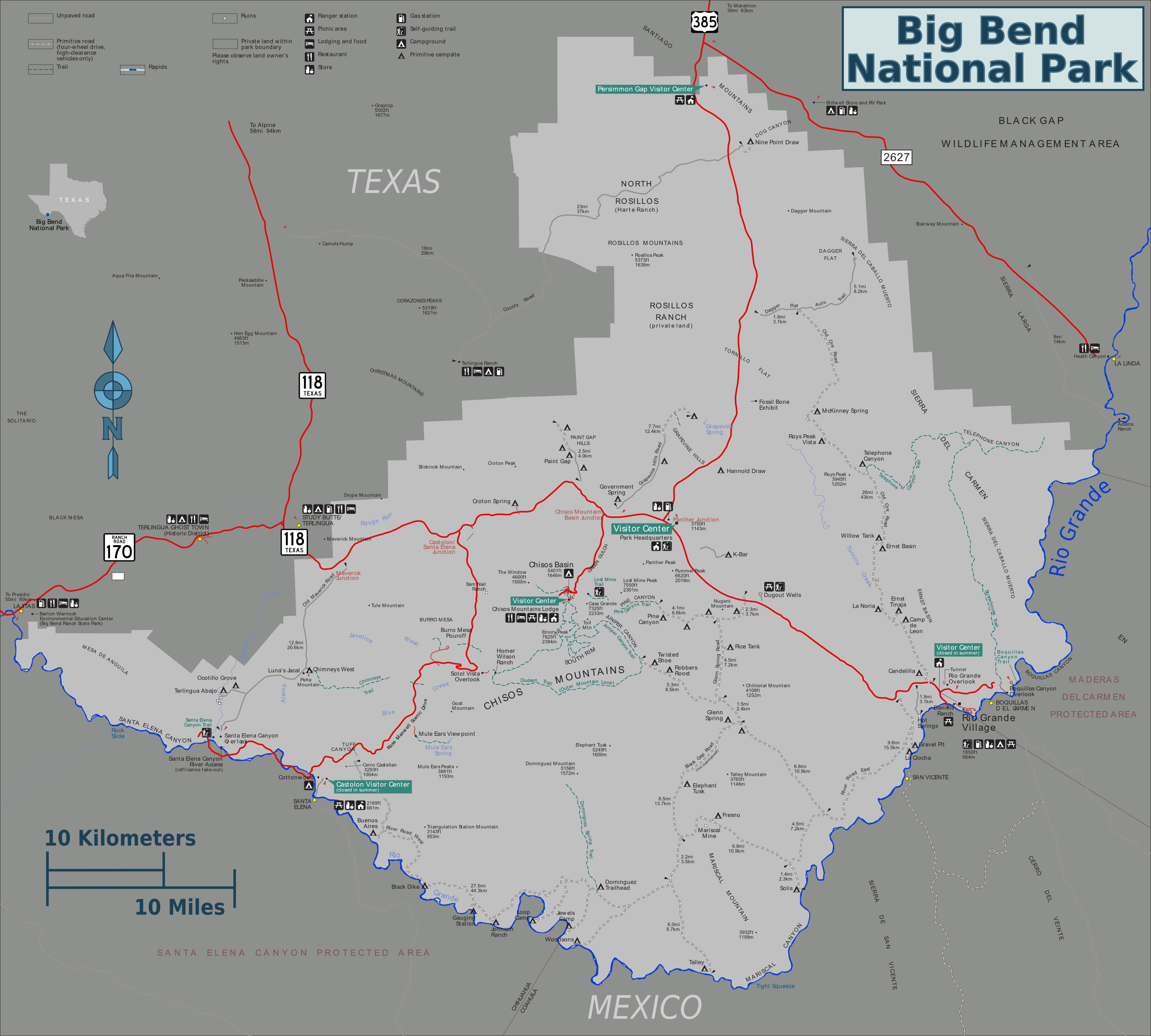 Map of Big Bend National Park, Texas